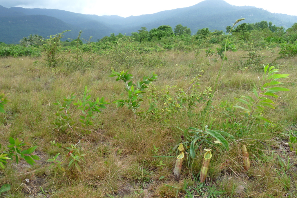 Nepenthes smilesii from Kampot, Cambodia (16 m asl)